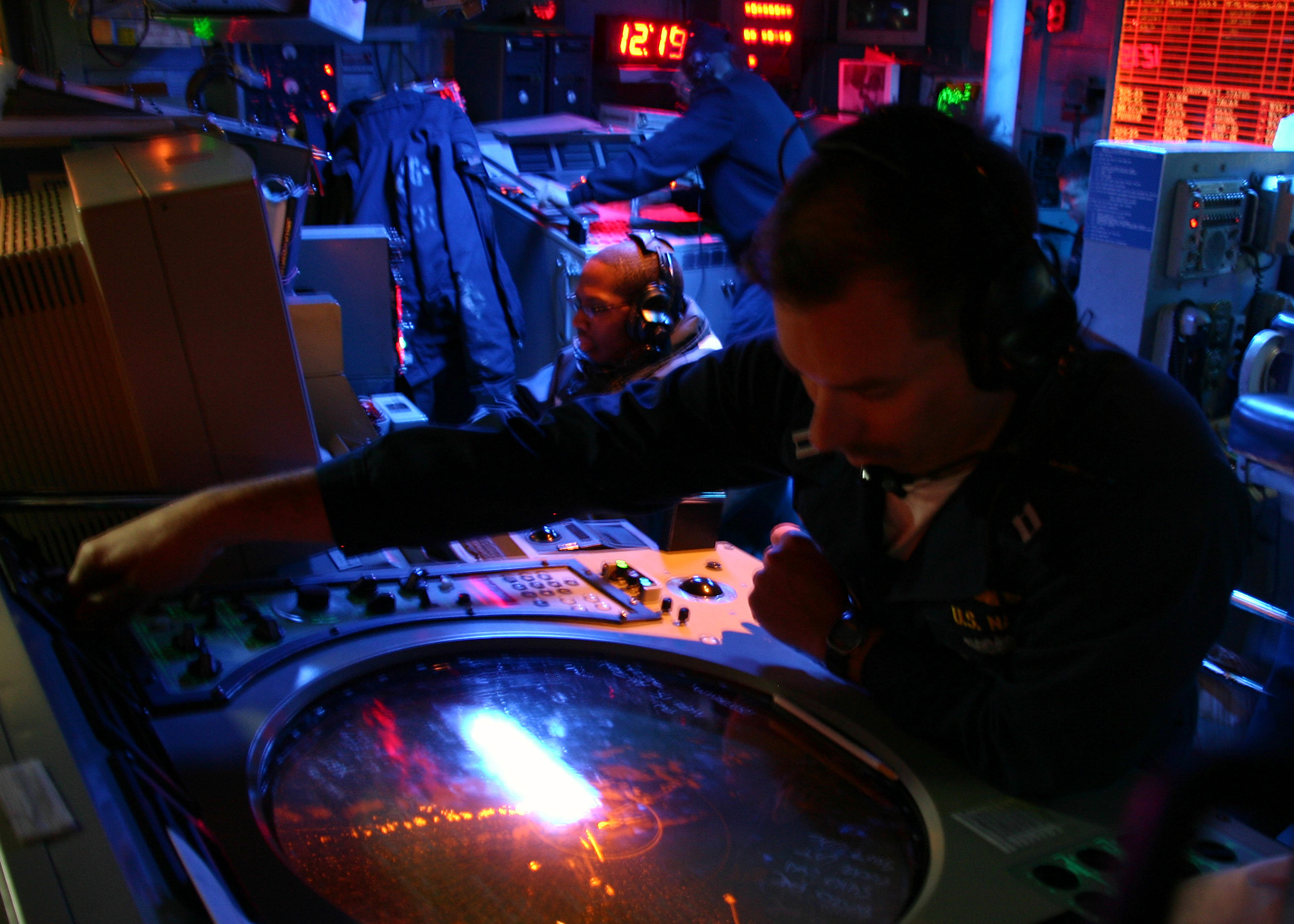 PACIFIC OCEAN (June 5, 2008) Chief Engineer, Lt. Dave Ryan, evaluates a tactical image in the combat information center of the guided-missile frigate USS Kauffman (FFG 59) during an anti-submarine warfare (ASW) exercise with the Chilean navy. The ASW exercises were conducted off the coast of northern Chile supporting Partnership of the Americas 2008. U.S. Navy photo by Mass Communication Specialist 2nd Class J.T. Bolestridge (Released)